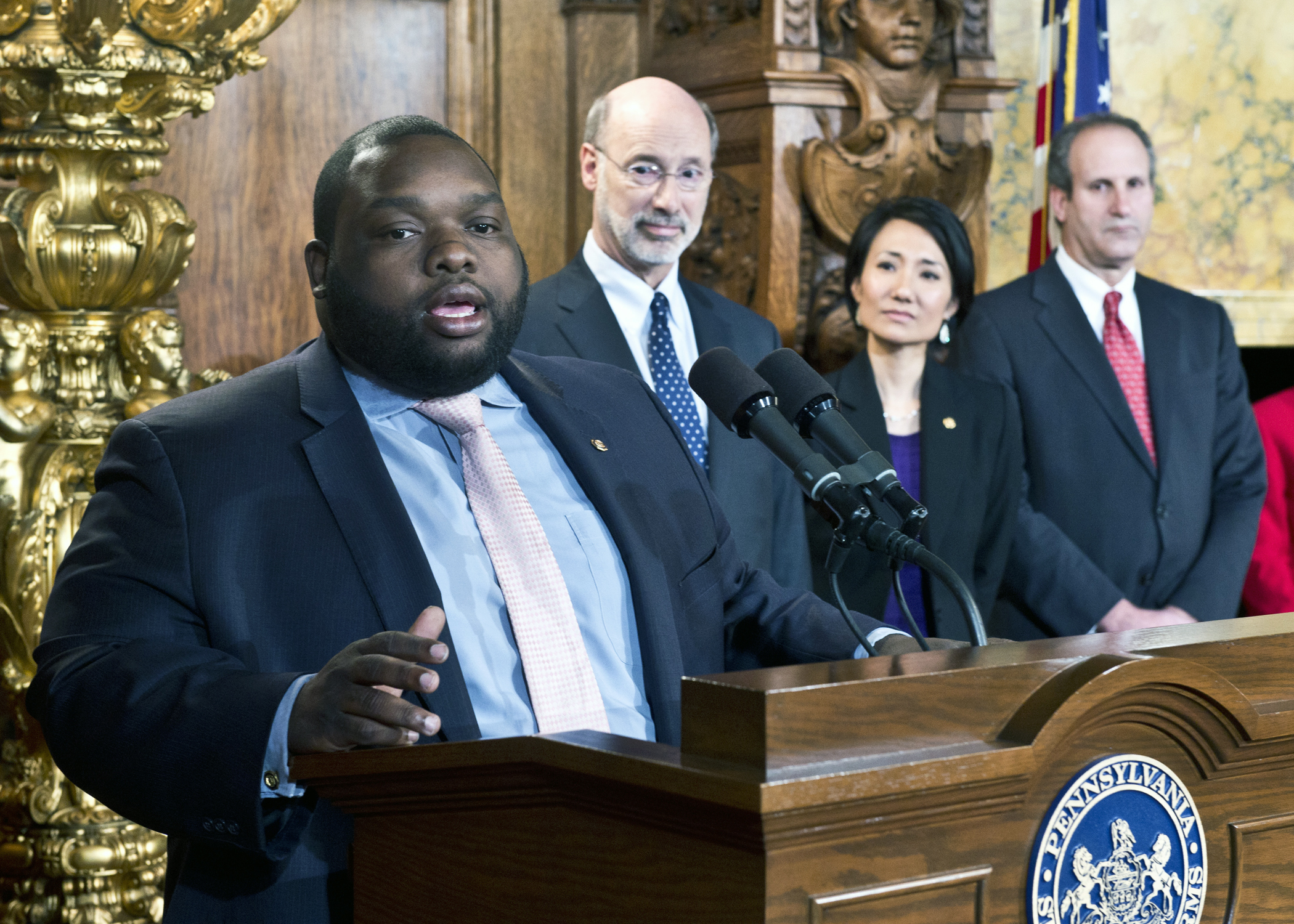 Rep. Harris spoke at the criminal record expungement bill signing.